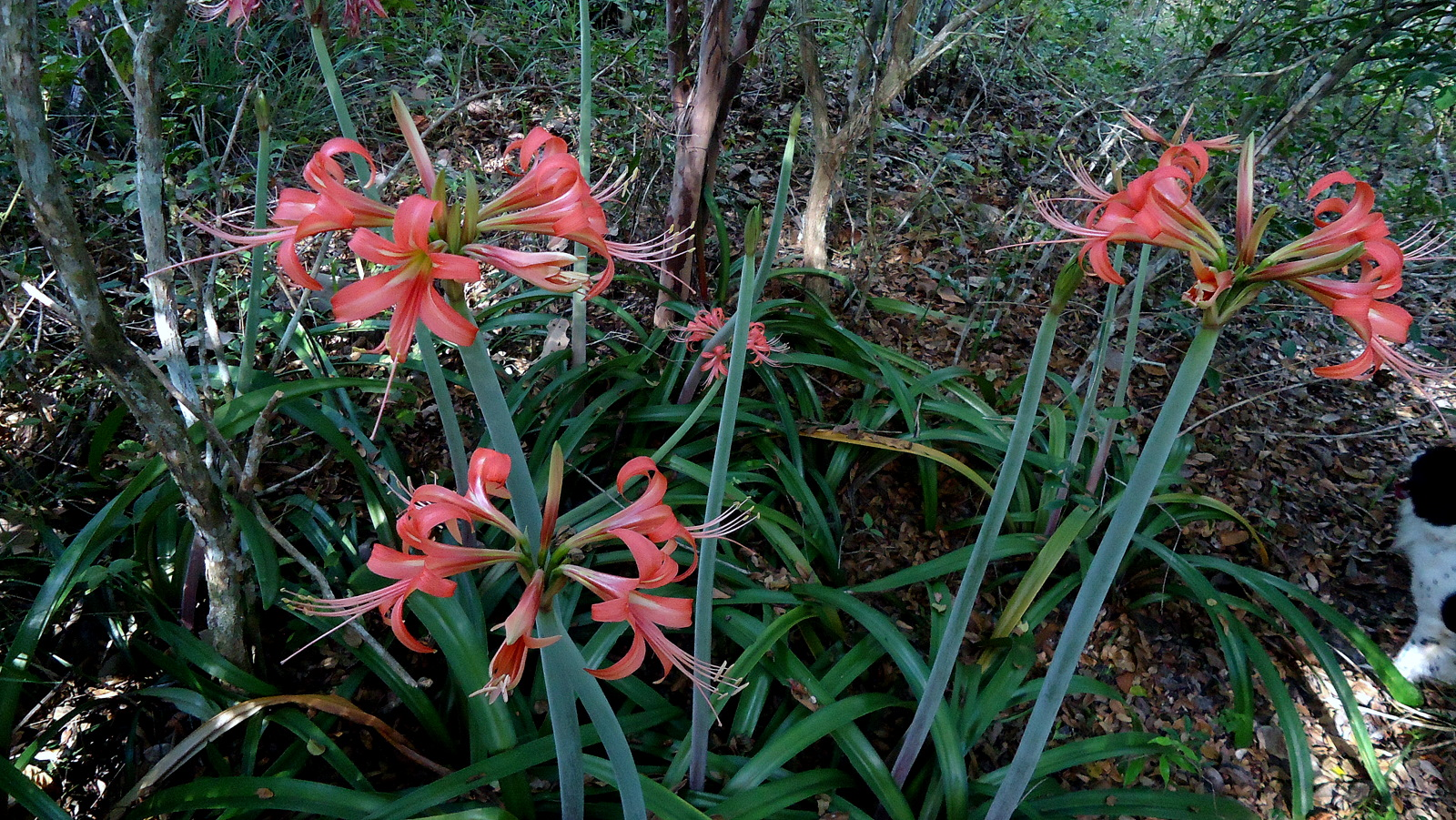 Hippeastrum stylosum Herb.